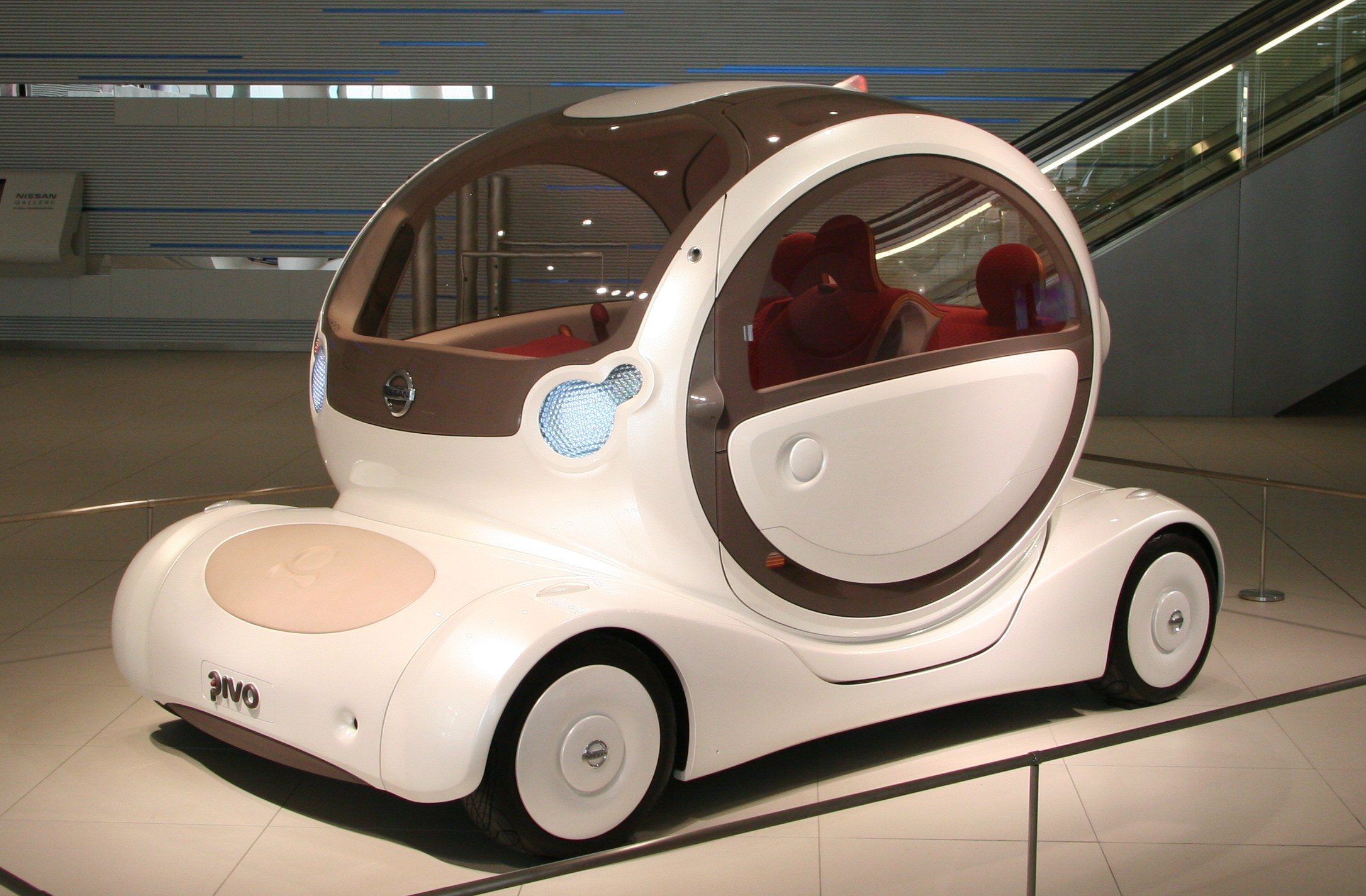 NISSAN PIVO